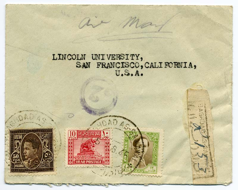 Iraq registered cover from 1945, scanned by User:Stan Shebs